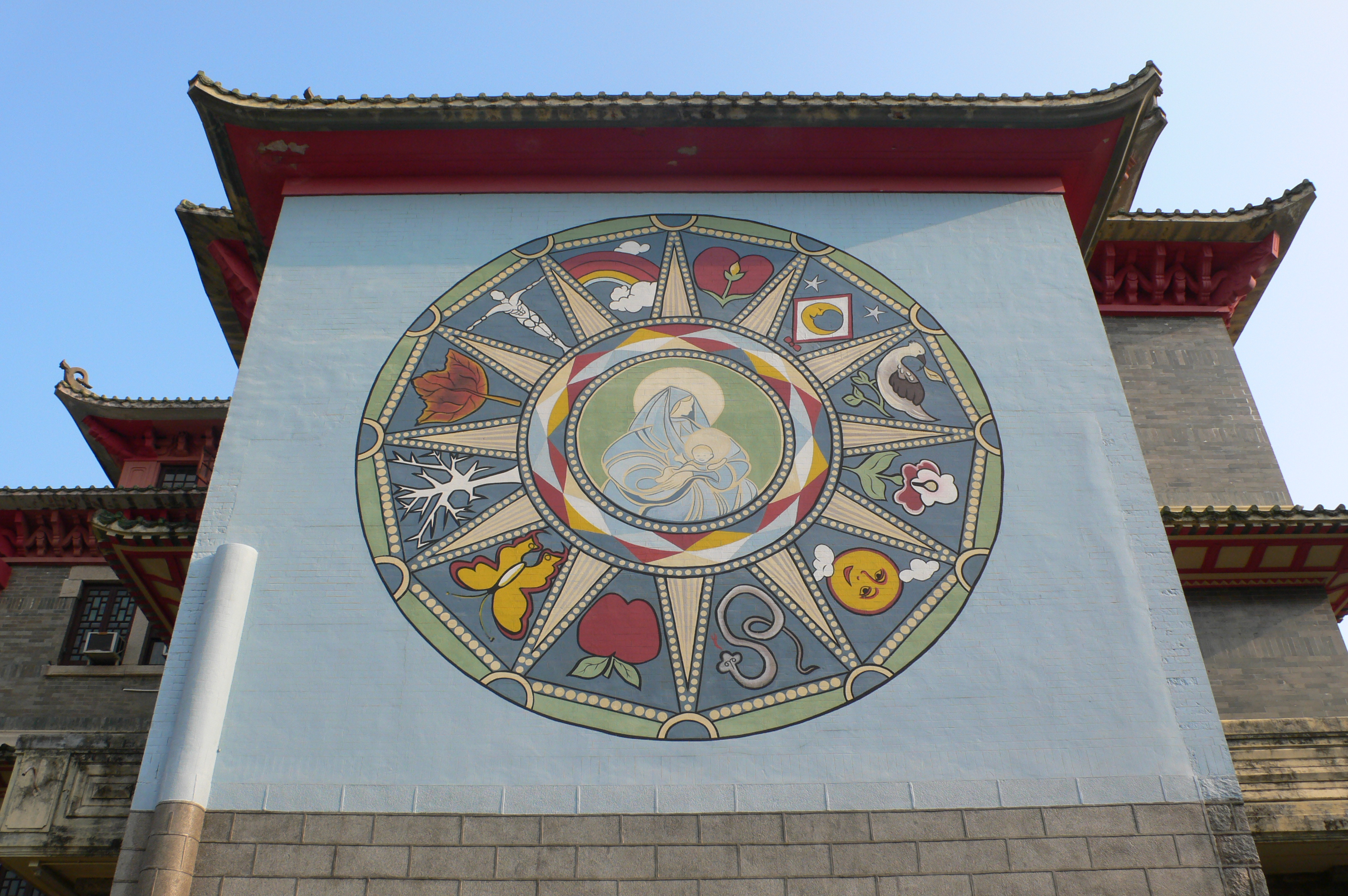 The Wall Painting in Holy Spirit Seminary, Hong Kong